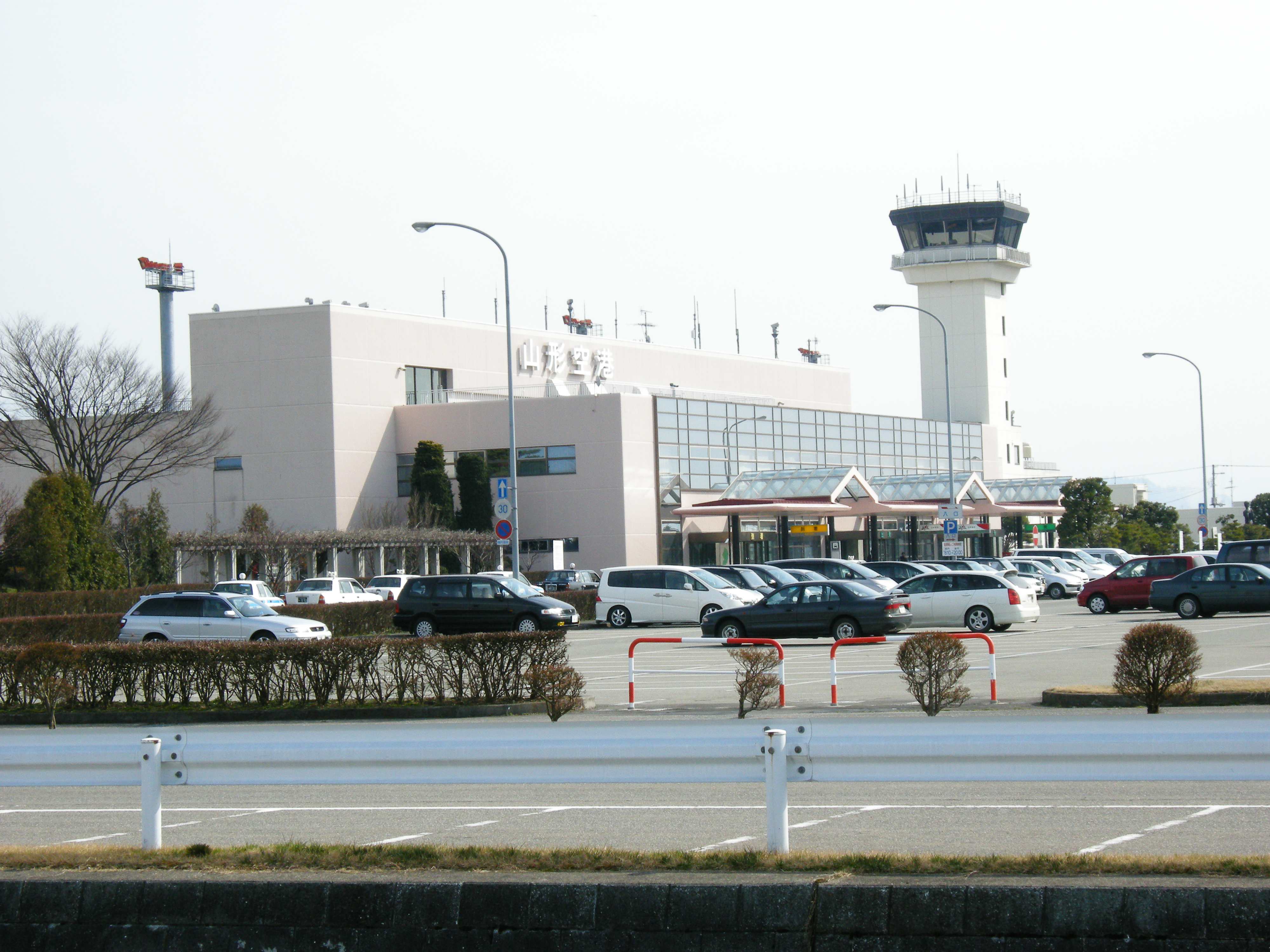 Yamagata Airport Terminal and Tower.